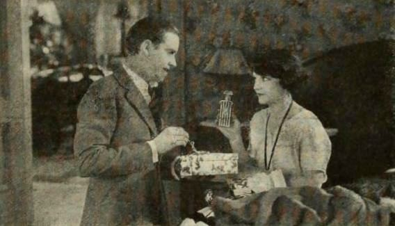 Still from the American film The Five Dollar Baby (1922) with an unidentified actor and Viola Dana, on page 62 of the August 1922 Photoplay.